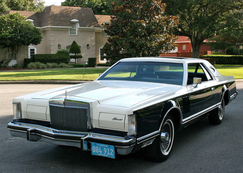 1979 Lincoln Mark V Bill Blass designer edition I think this is the only BB edition I have seen without the fake convertible roof.